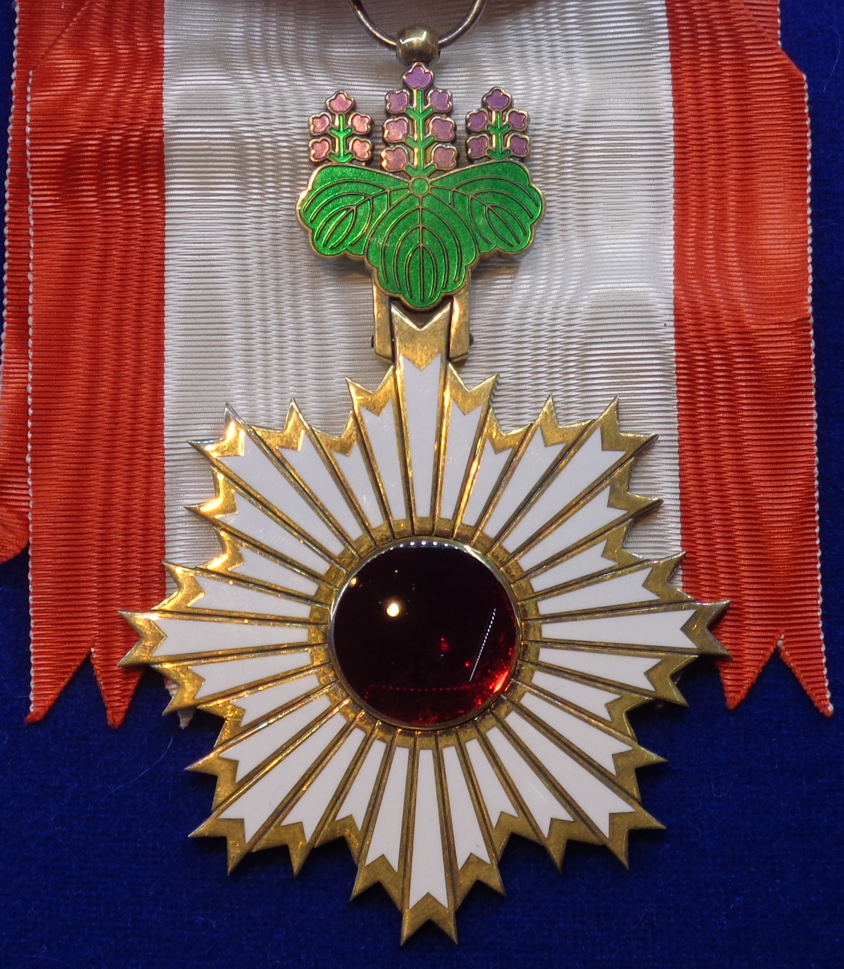 Order of the Rising Sun, badge of Grand Cordon. Japan. The exhibition of the Tallinn Museum of Orders of Knighthood, Estonia.